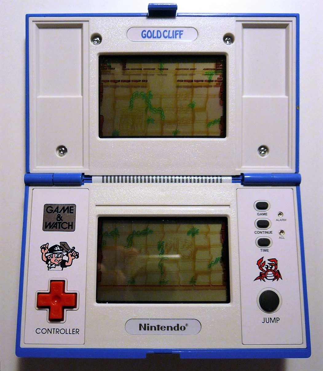 Gold Cliff - Game&watch - Nintendo